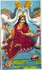 "Album of popular prints mounted on cloth pages. Colour lithograph, lettered, inscribed and numbered 37. The print is subdivided into ten equal parts, each representing one of the ten aspects of Devi, the divine mother. Each image is identified with a Bengali inscription, and the goddesses represented are: Kali, Tara, Shodashi, Bhuvaneshvari, Bhairavi, Chhinnamasta, Dhumavati, Bagalamukhi, Matangi, and Kamala. 2003,1022,0.37, AN804243 "